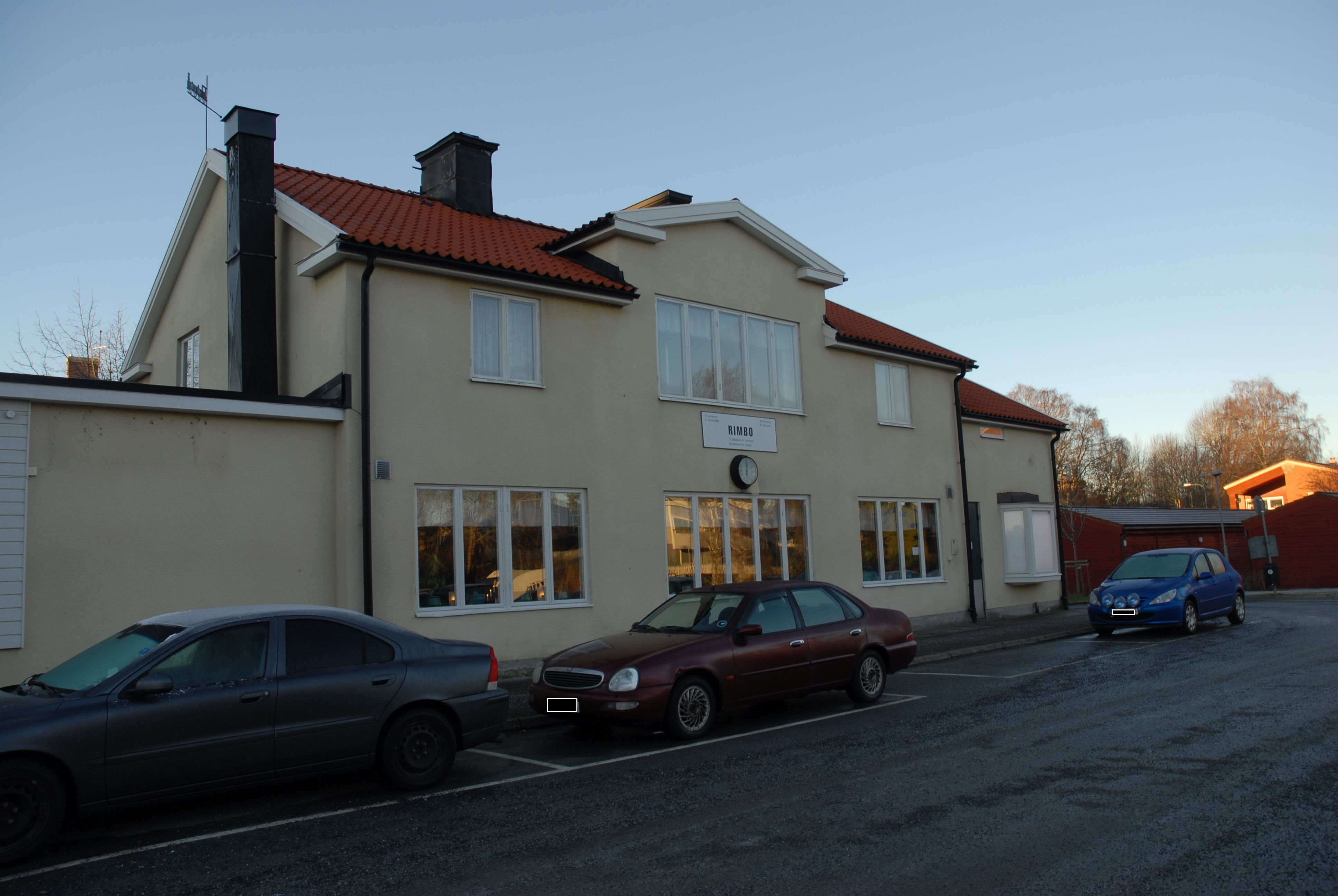 Former Rimbo station building. Stockholm-Roslagens Railway.